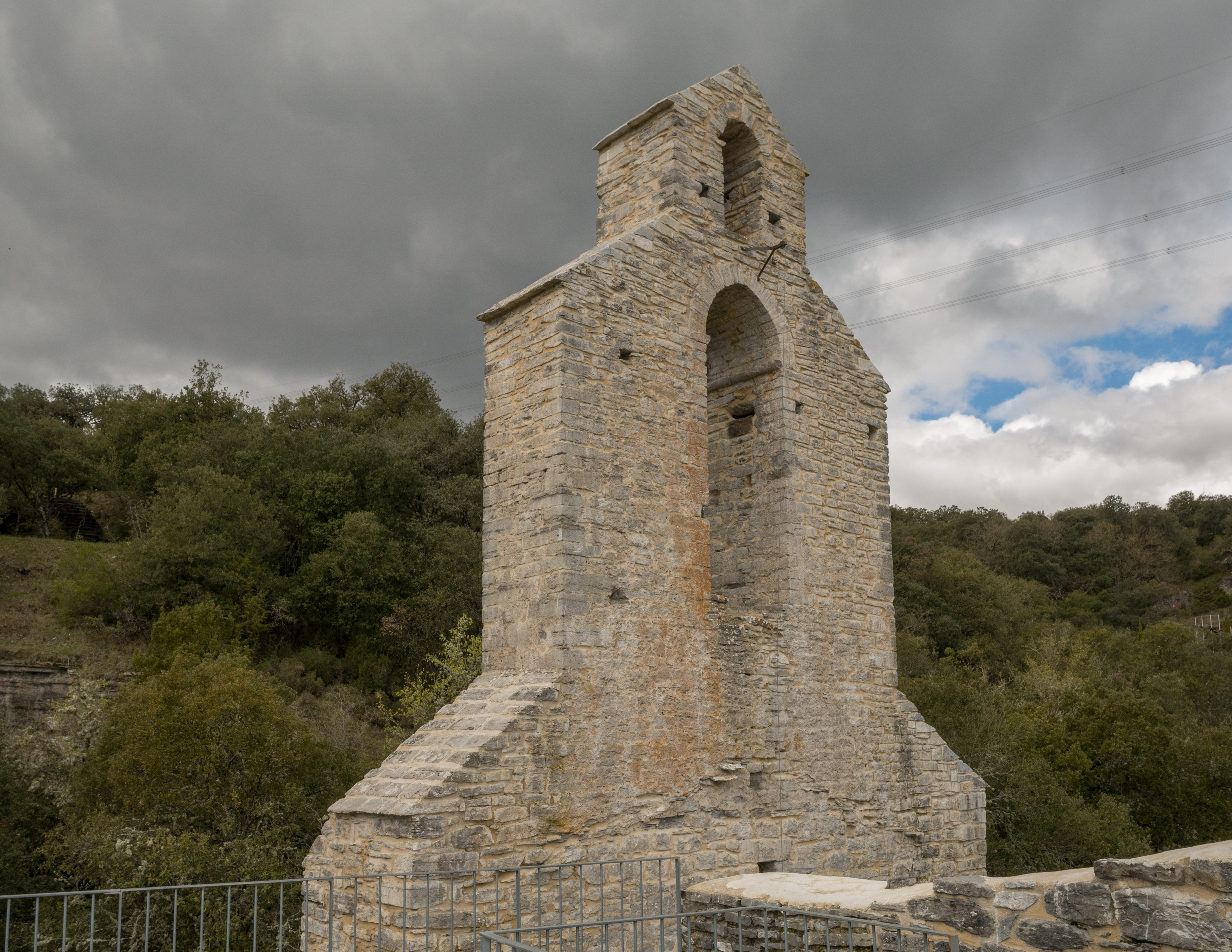 Convent ruins Santa Catalina in the Botanical Garden. Trespuentes, Iruña de Oca, Álava, Basque Country, Spain